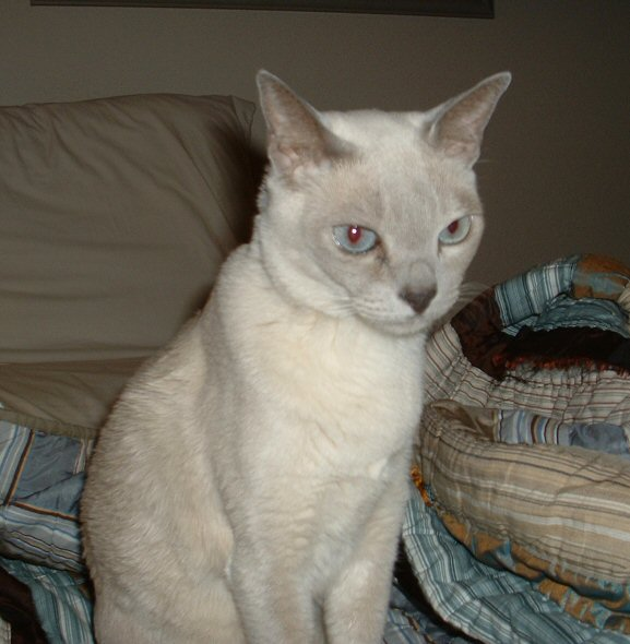 Platinum Mink Tonkinese. Photograph taken by Jessica Huber